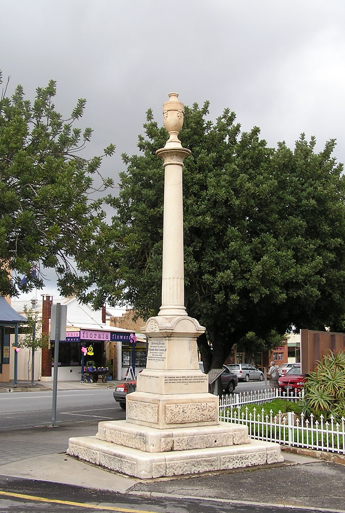 Memorial to E. H. Coombe in Tanunda, South Australia